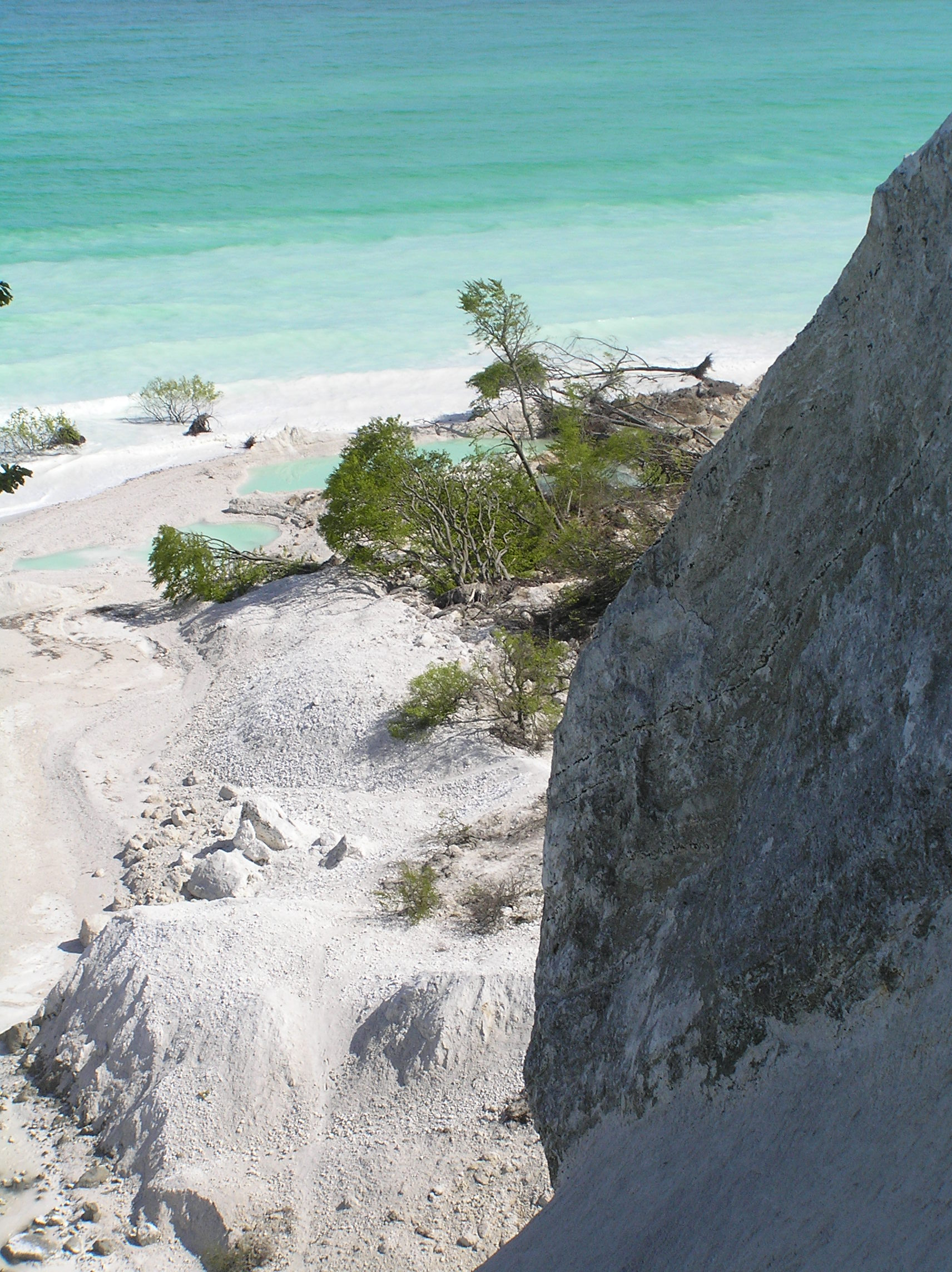 A part of Møns Klint (chalk cliffs on island of Møn, Denmark) after a collapse January 2007